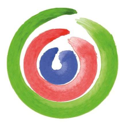 Logo Sustainability Week